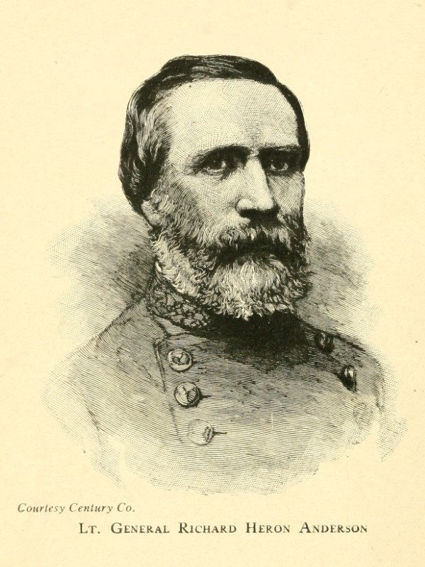 Image published in The Life of Lieutenant General Richard Heron Anderson, of the Confederate States Army (1917), by C. Irvine Walker. Charleston, S. C.: Art Publishing Company